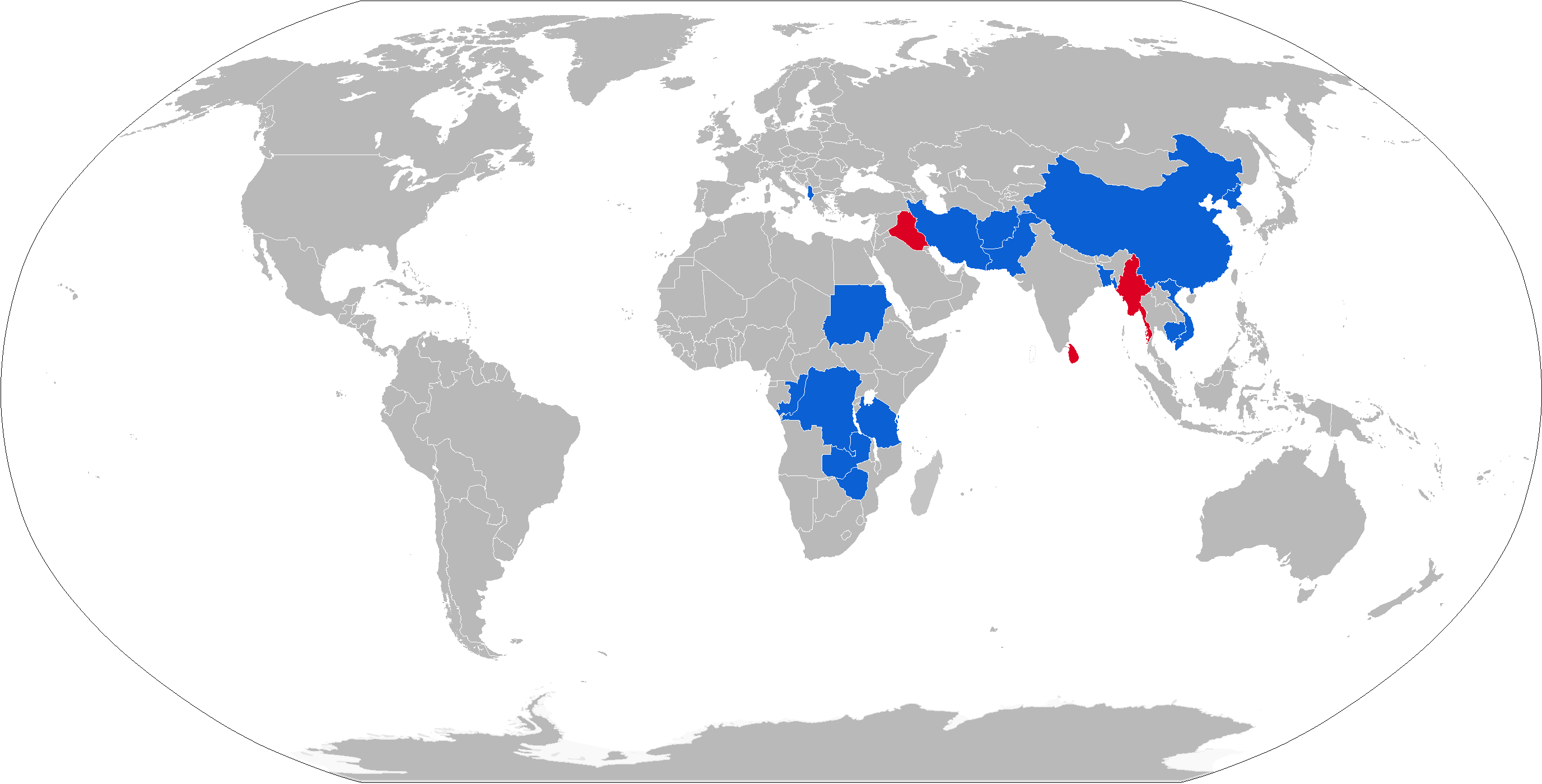 Map of Type 59 operators in blue with former operators in red